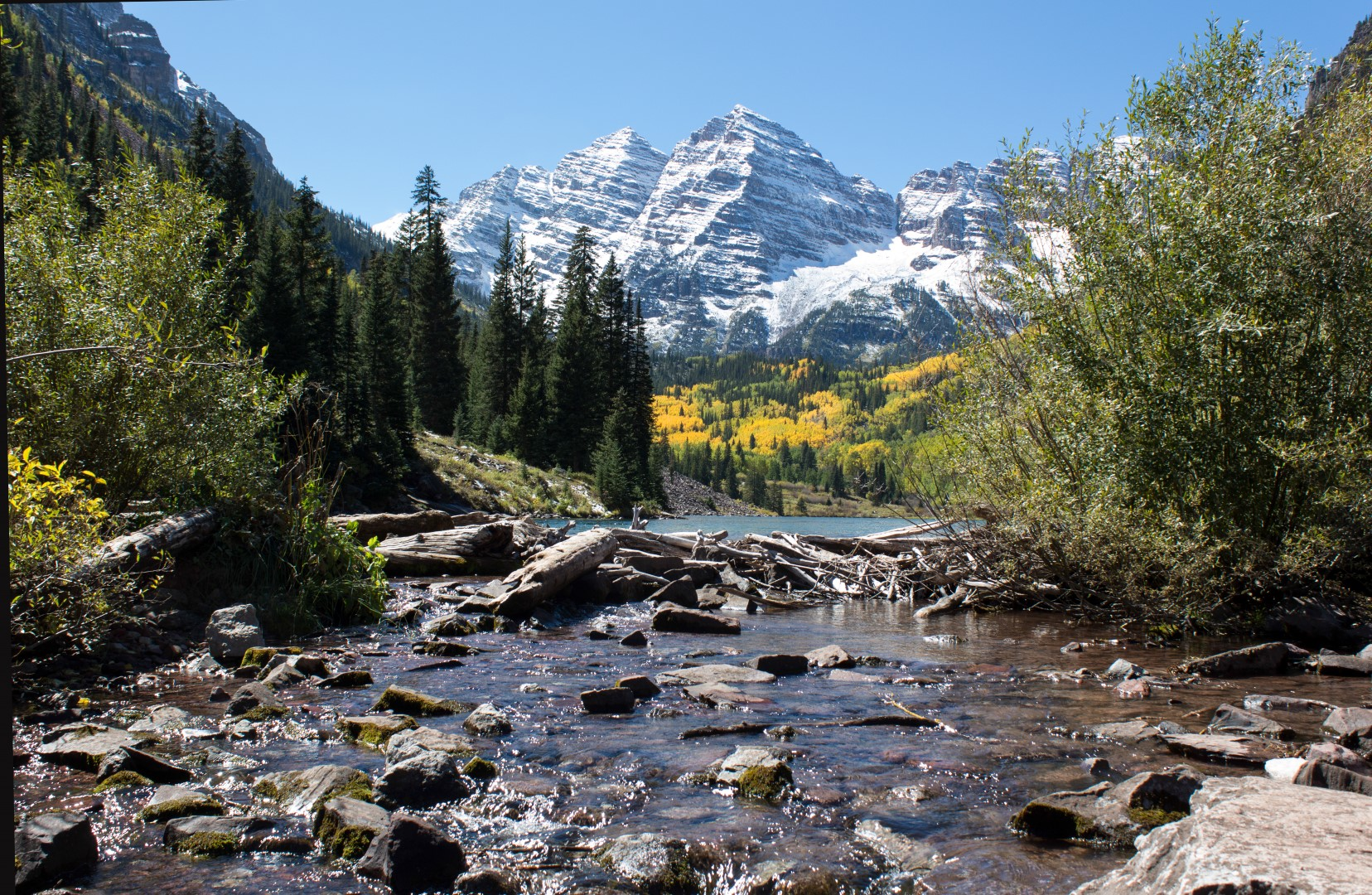 Maroon Bells, Colorado